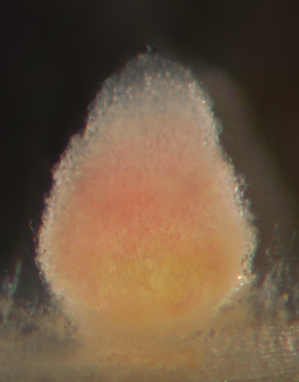 Closeup of a root nodule on a Medicago plant, inoculated with Sinorhizobium meliloti. The nodule has been cut in half and demonstrates the four zones of an indeterminate nodule.